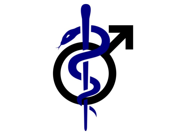 Icon representing men's health. Staff of Hermes (in blue) placed in front of the Mars symbol (in black)